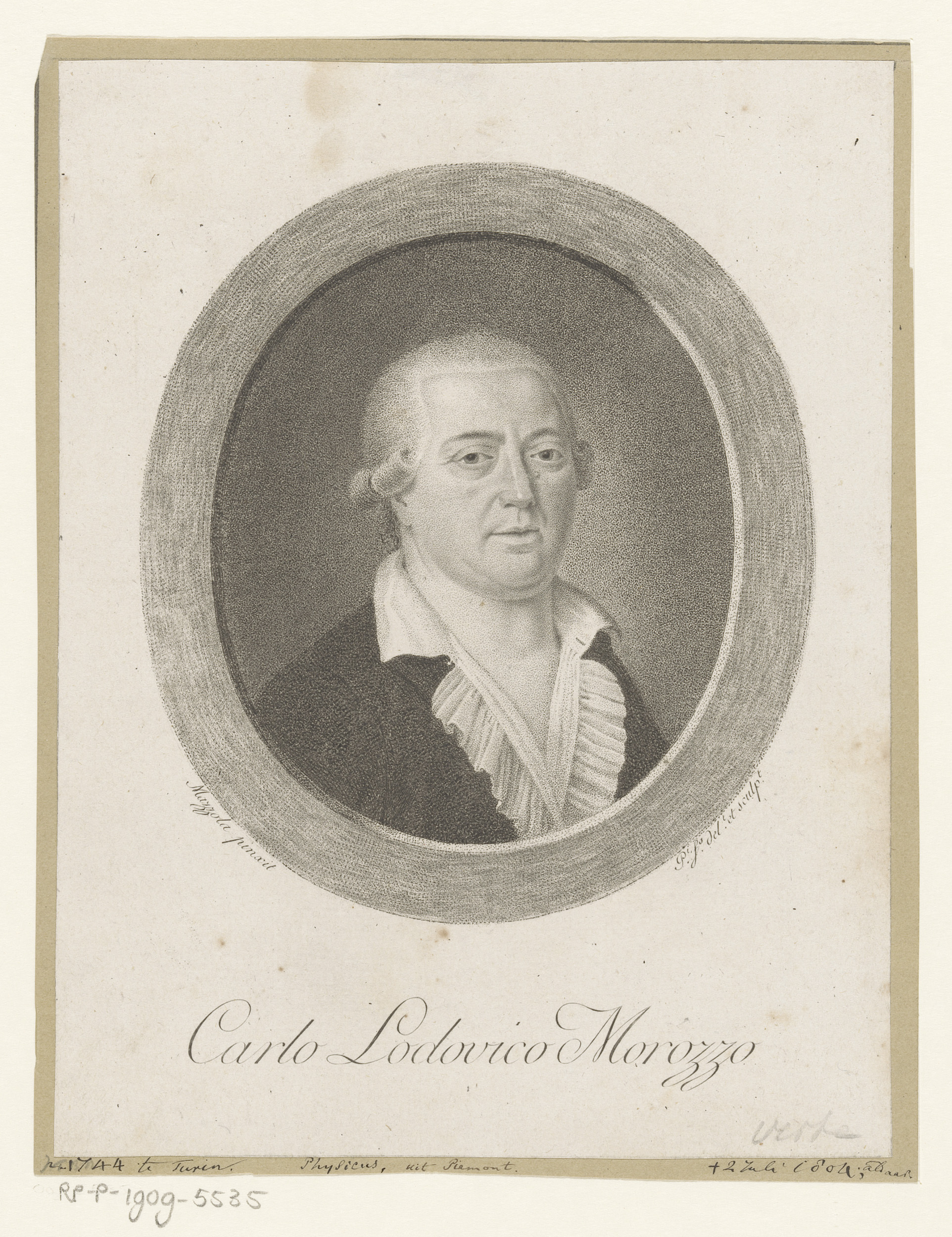 Portrait of Carlo Lodovico Morozzo (1743-1804)